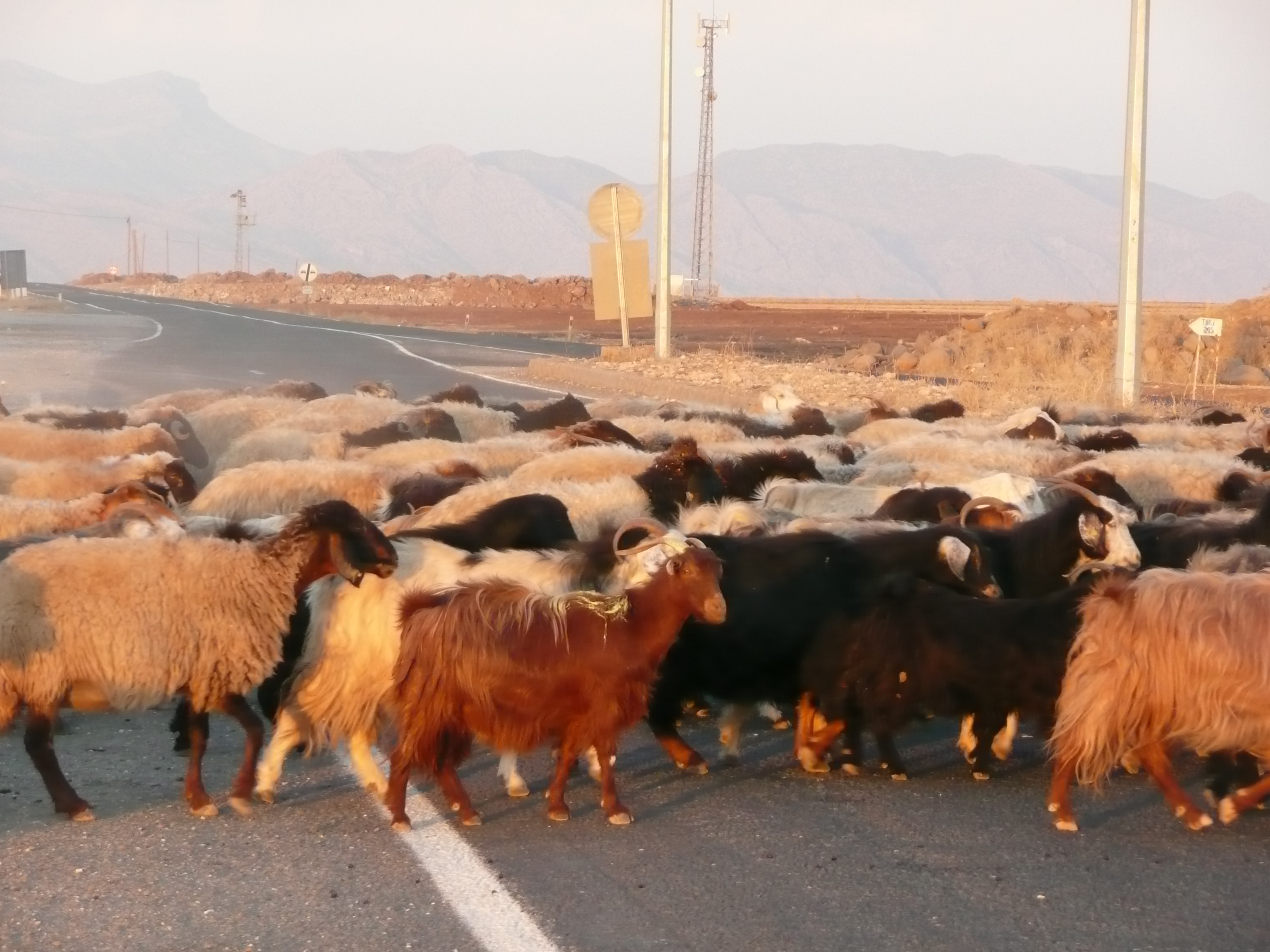 İdil, Turkey